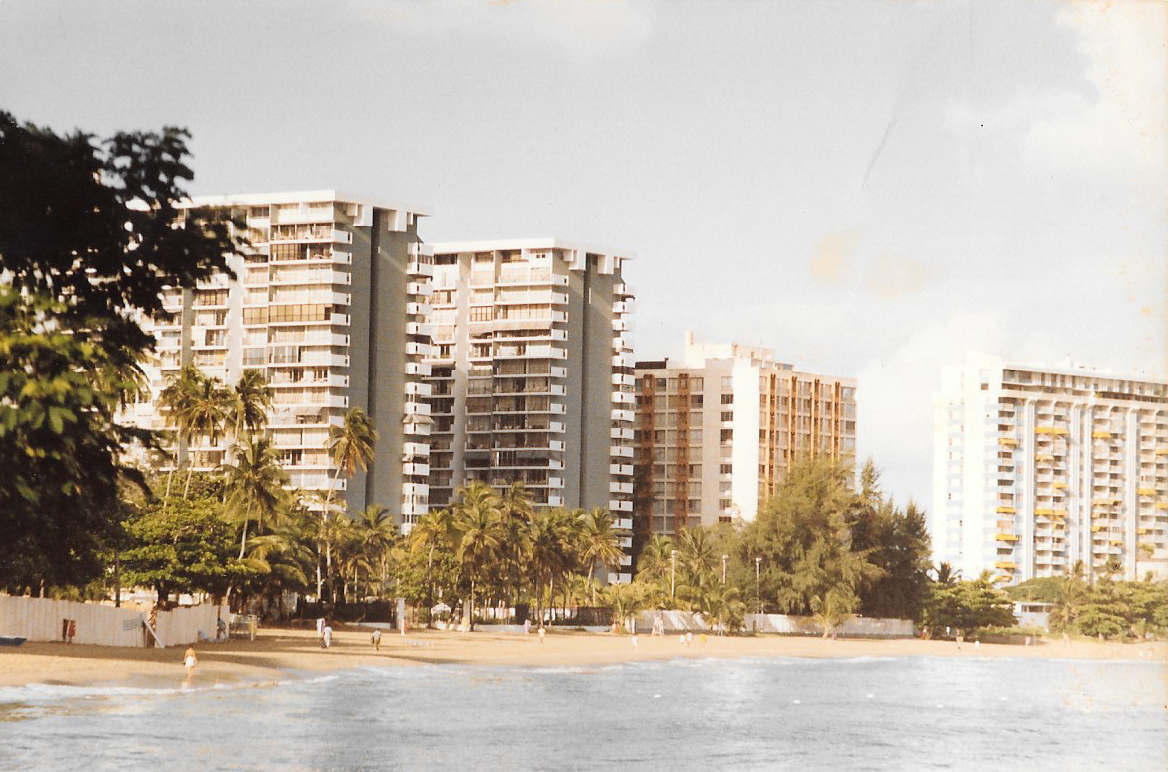 Isla Verde, Puerto Rico beach and hotels, 1989. Photo was taken from island the Atlantic Ocean, facing the shore.